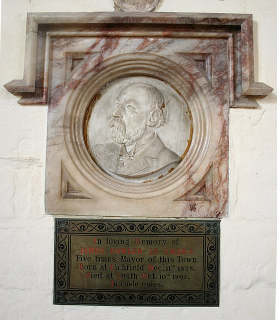 James Fowler memorial Memorial to James Fowler 1828-1892 in St.James' church, five times Lord Mayor of Louth and prolific architect of Lincolnshire churches and restorations